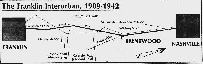 Source: Williamson County, Tennessee, Archives.